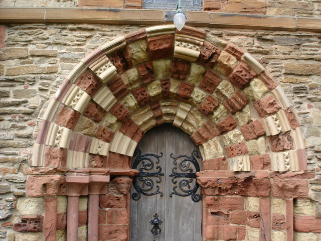 St Magnus Cathedral, Kirkwall The splendid use of contrasting building stone. The red was quarried 4 km north of Kirkwall at Head of Holland; the yellow most probably from Fers Ness on Eday. Both are different forms of sandstone. Both have been heavily weathered.